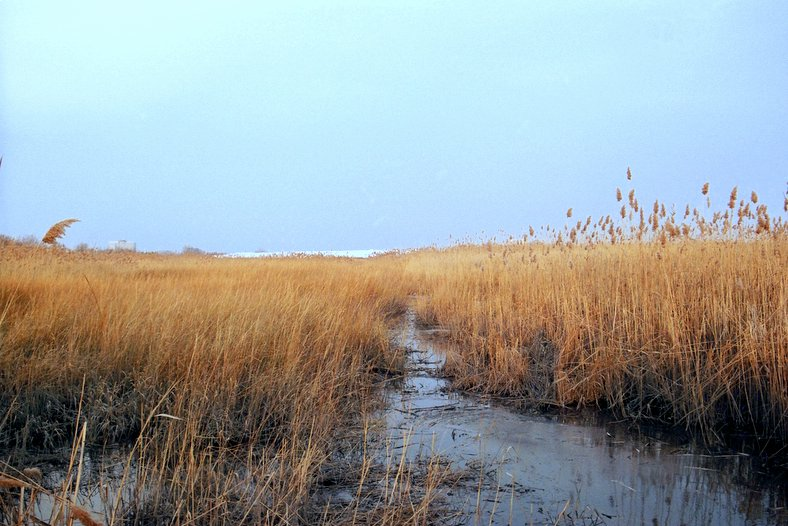 The New Jersey Hackensack Meadowlands as seen from Lyndhurst.